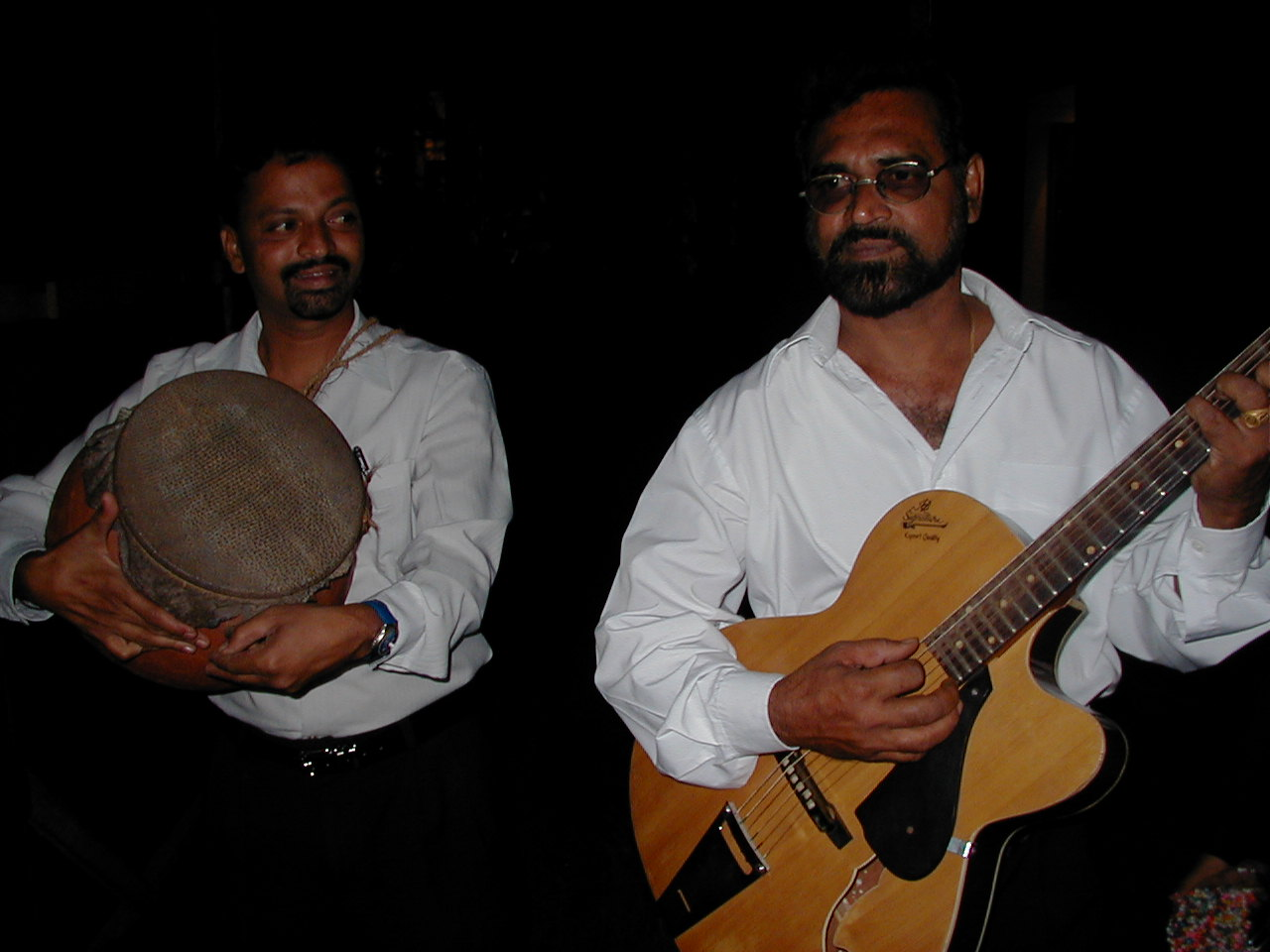 Traditional musicians of the Goan mando, rev up on their instruments. Photo by Frederick Noronha. +91-9822122436